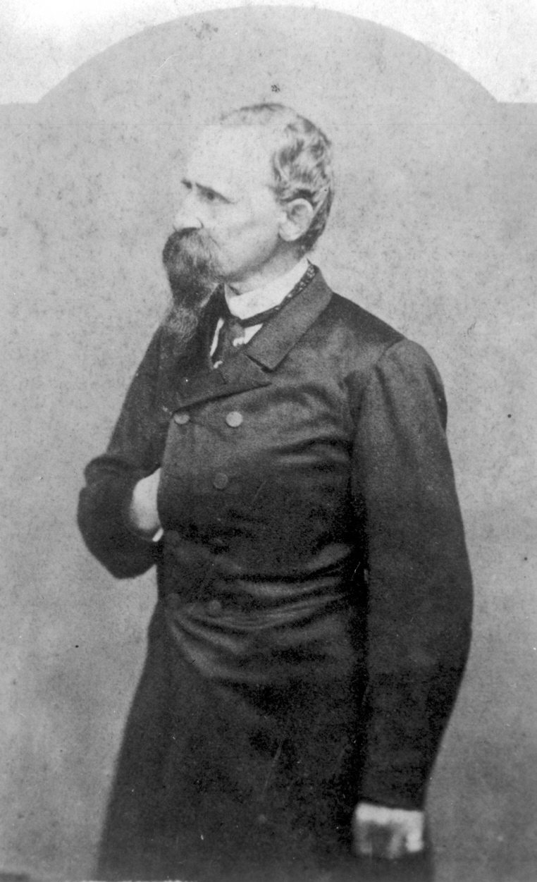 Colonel Leandro Gomez, Uruguayan commander of the defending forces of Paysandú (1864-65).